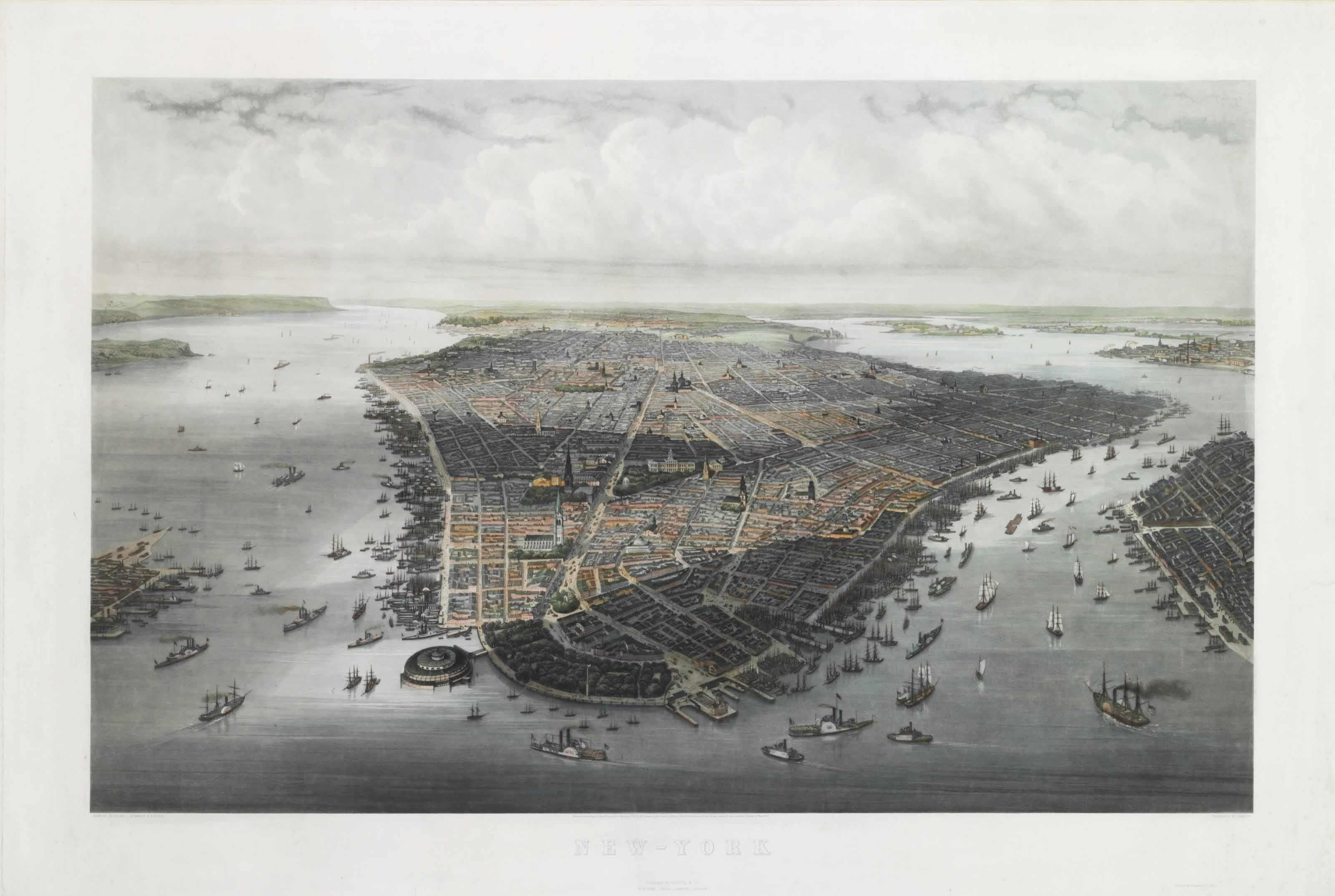 Large bird's-eye view of New York City with Battery Park in the foreground, with contemporary hand-coloring.